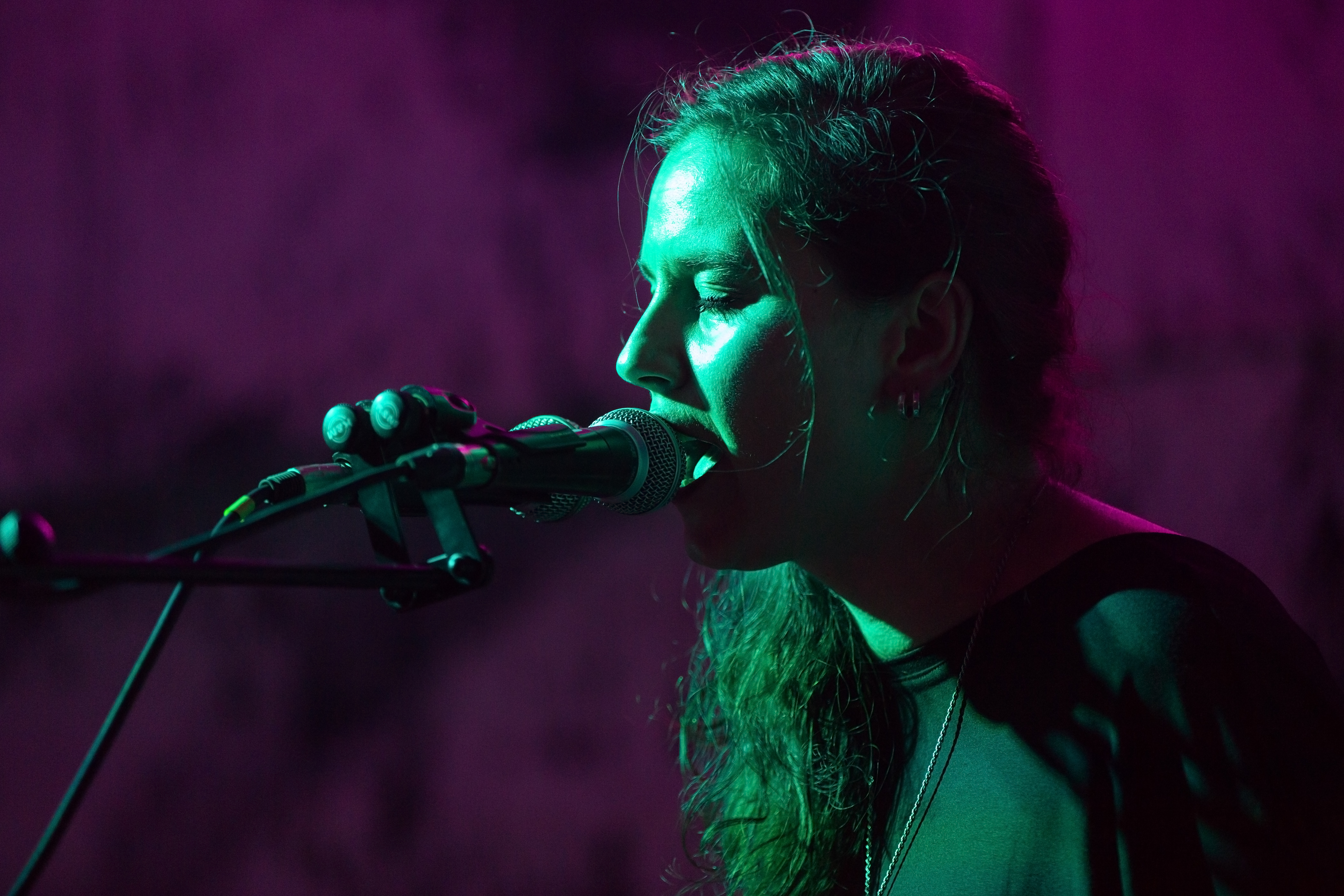 Maja Osojnik and Patrick Wurzwallner at the music festival Electric Spring 2016 at Museumsquartier in Vienna, Austria.